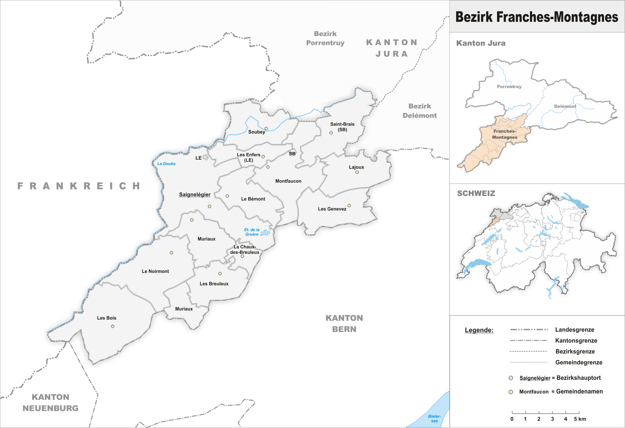 Municipalities in the district of Franches-Montagnes to 2009